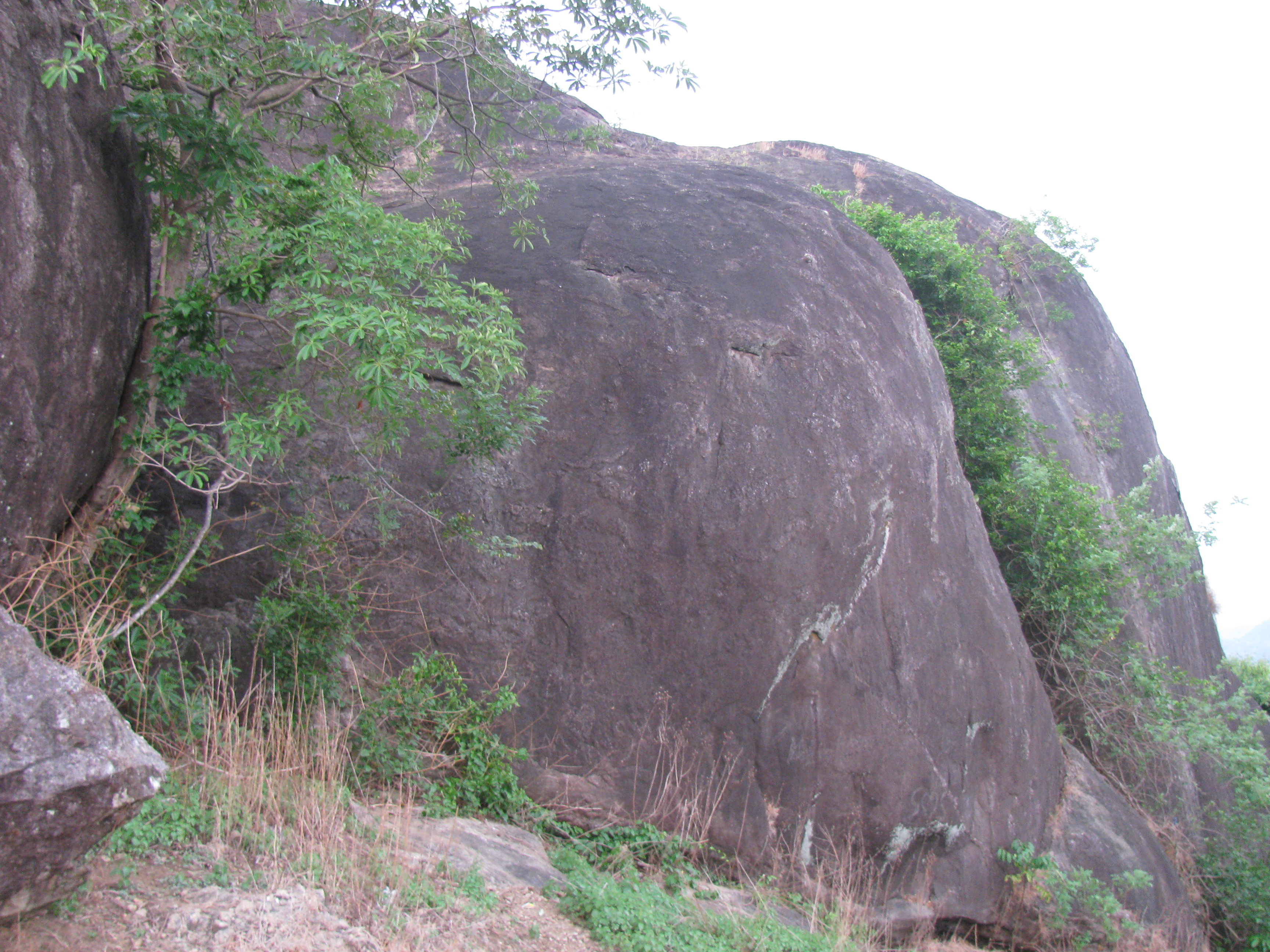 A rock formation in Ramavarmapuram, Thrissur District, Kerala, India, which resembles the back view of an elephant. The place is locally known as "Anappara" meaning "elephant rock"